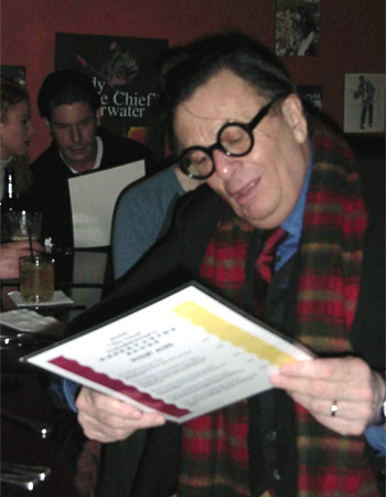 Barry Humphries taking the cast and crew of Dame Edna: The Royal Tour out to dinner in Chicago in 2001.